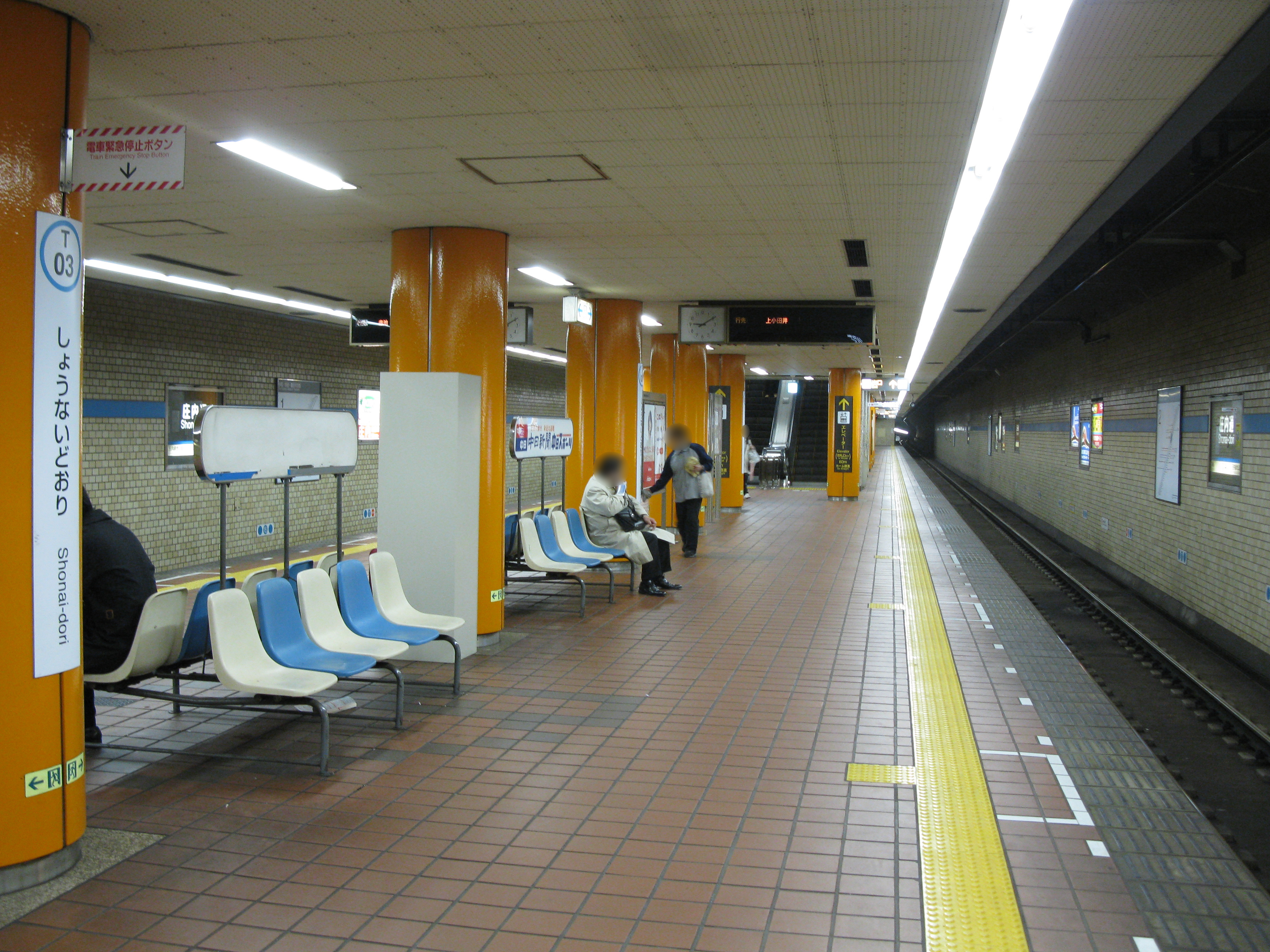 Shōnai-dōri Station platform (Nagoya Municipal Subway Tsurumai Line)